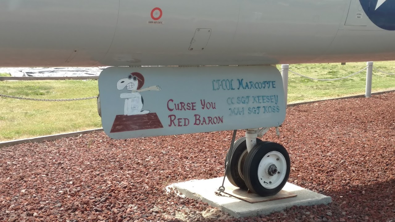 Photograph of the landing gear of the Convair F-102 Delta Dagger American jet fighter on display at Castle Air Museum, California in April 2018. Notice the cartoon painted on the gear and what are presumably the names of the aircraft's crew.